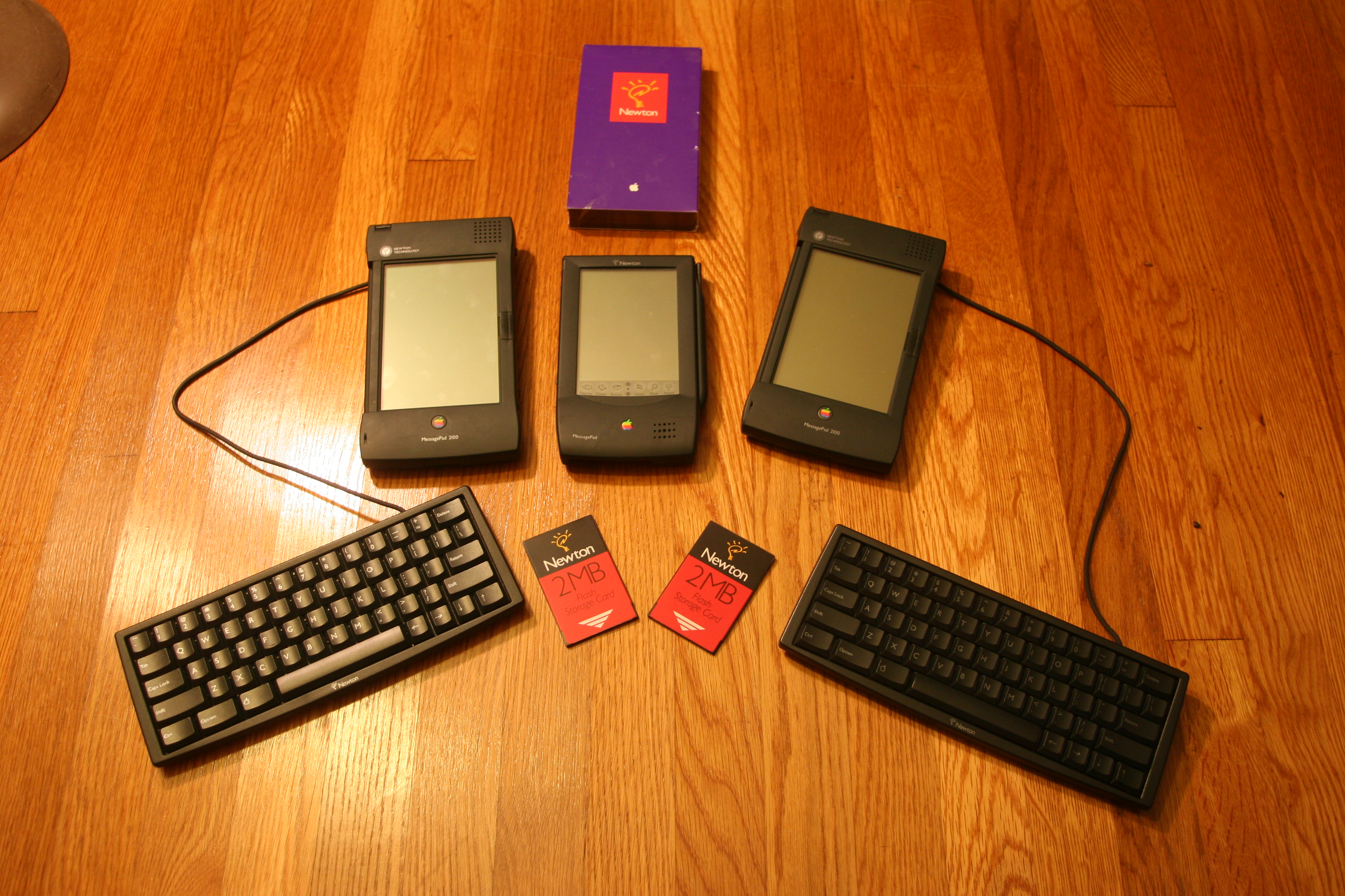 A gift from a buddy at work who is moving across country and is thus having to pair down his toy collection.